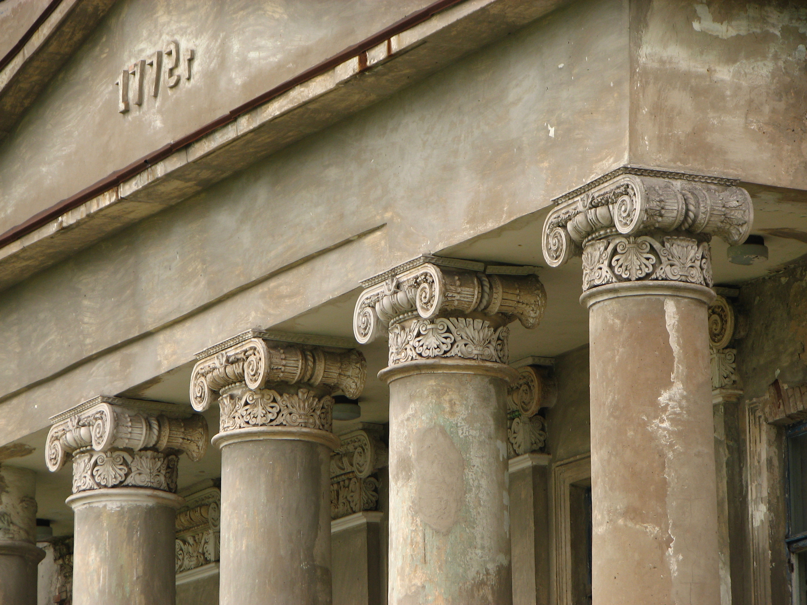 Oleksandrivsk palace.